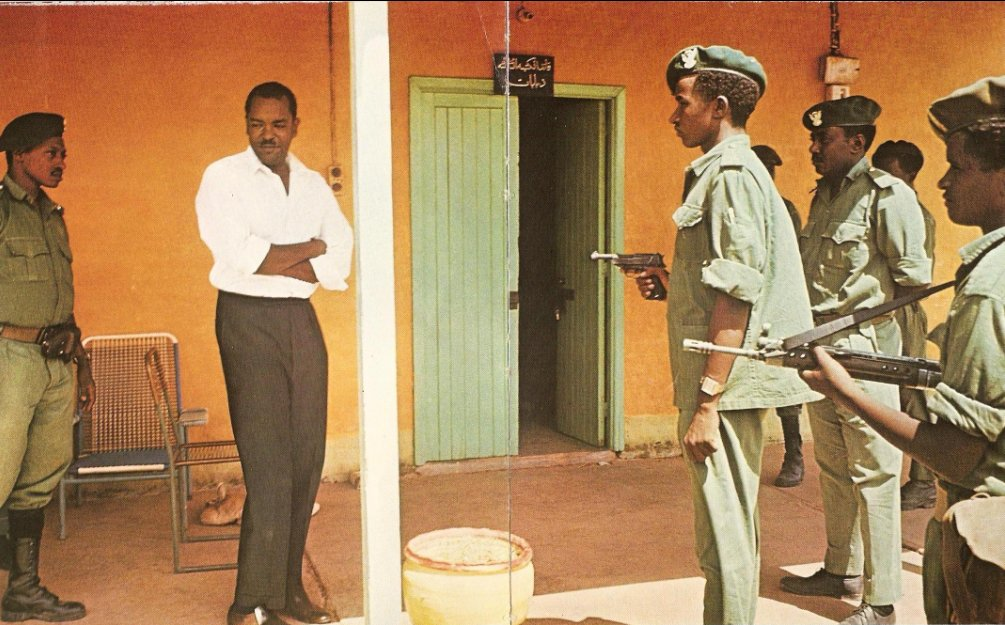 Hashem al Atta under arrest following the failed 1971 Sudanese coup d'état attempt.